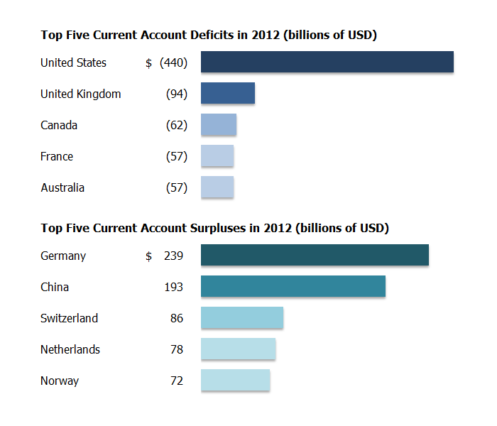 The top five annual current account deficits and surpluses in billions of U.S. dollars for the year 2012 based on data from the OECD.